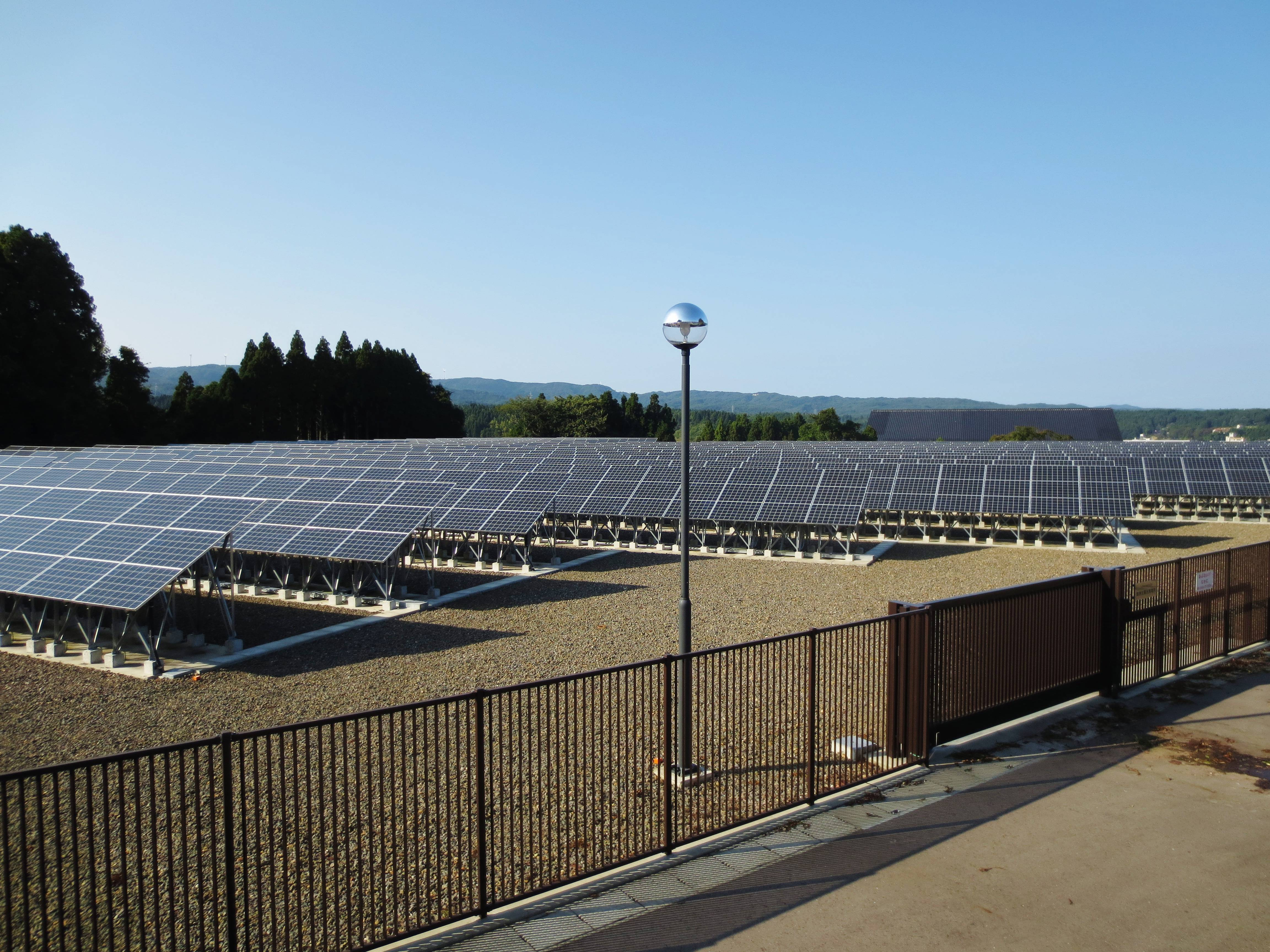 Suzu Photovoltaic Power Station.